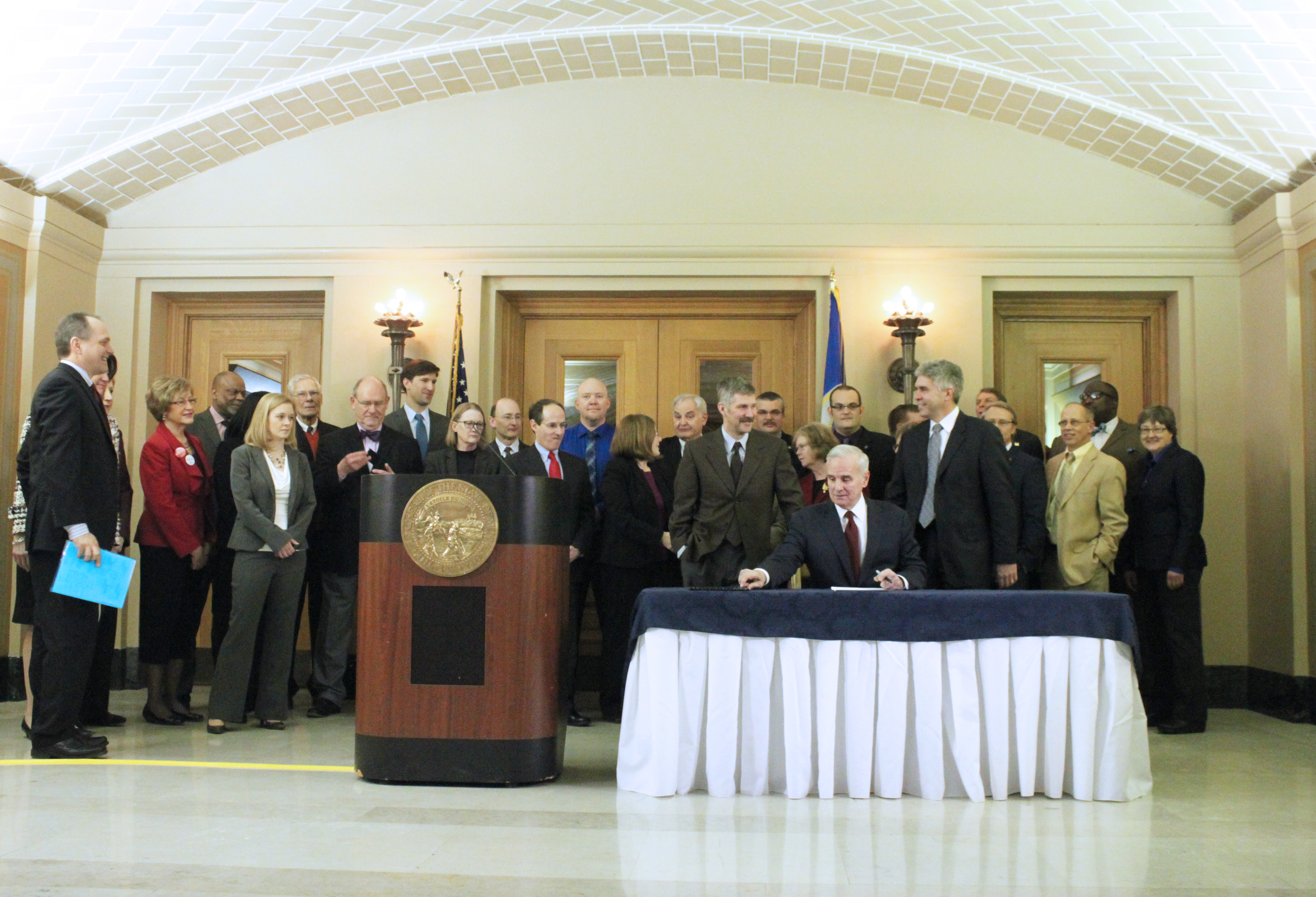 Governor Mark Dayton signed the Minnesota Health Insurance Exchange legislation on March 20, 2013, creating MNsure. An estimated 1.3 million Minnesotans will benefit from MNsure, including nearly 300,000 Minnesotans who are currently uninsured. The bill (HF5/SF1) – which establishes a new marketplace where Minnesotans can choose quality, affordable health coverage – will save Minnesota families and businesses an estimated $1 billion in health care costs by 2016.